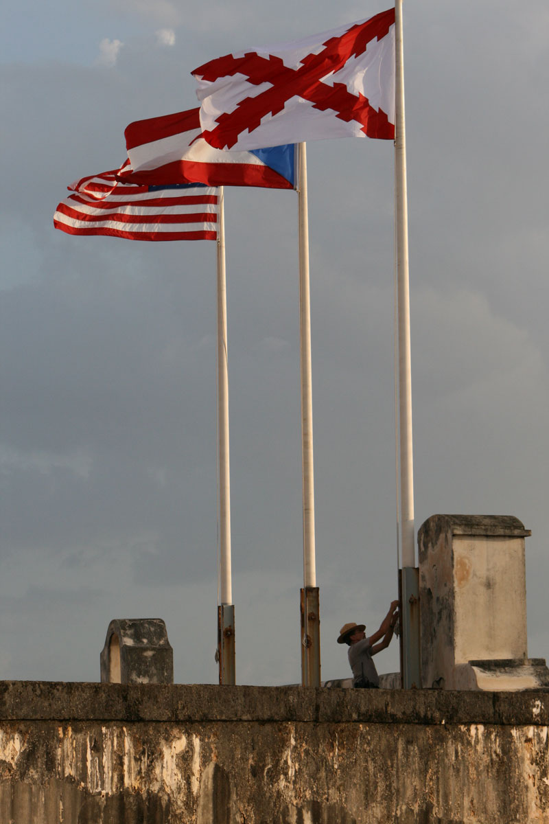 These are the three flags that fly over the historic Fort San Cristóbal in San Juan, Puerto Rico; a Commonwealth of the United States. The flags depicted are the U.S. flag, Puerto Rican flag and Cross of Burgundy. The Cross of Burgundy was the Spanish military flag flown from 1516 to 1785.